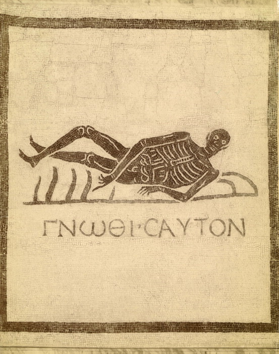 Memento Mori mosaic from excavations in the convent of San Gregorio, Via Appia, Rome, Italy. Now in the National Museum, Rome, Italy. The Greek motto gnōthi sauton (know thyself, nosce te ipsum) combines with the image to convey the famous warning: Respice post te; hominem te esse memento; memento mori. (Look behind; remember that you are mortal; remember death.)